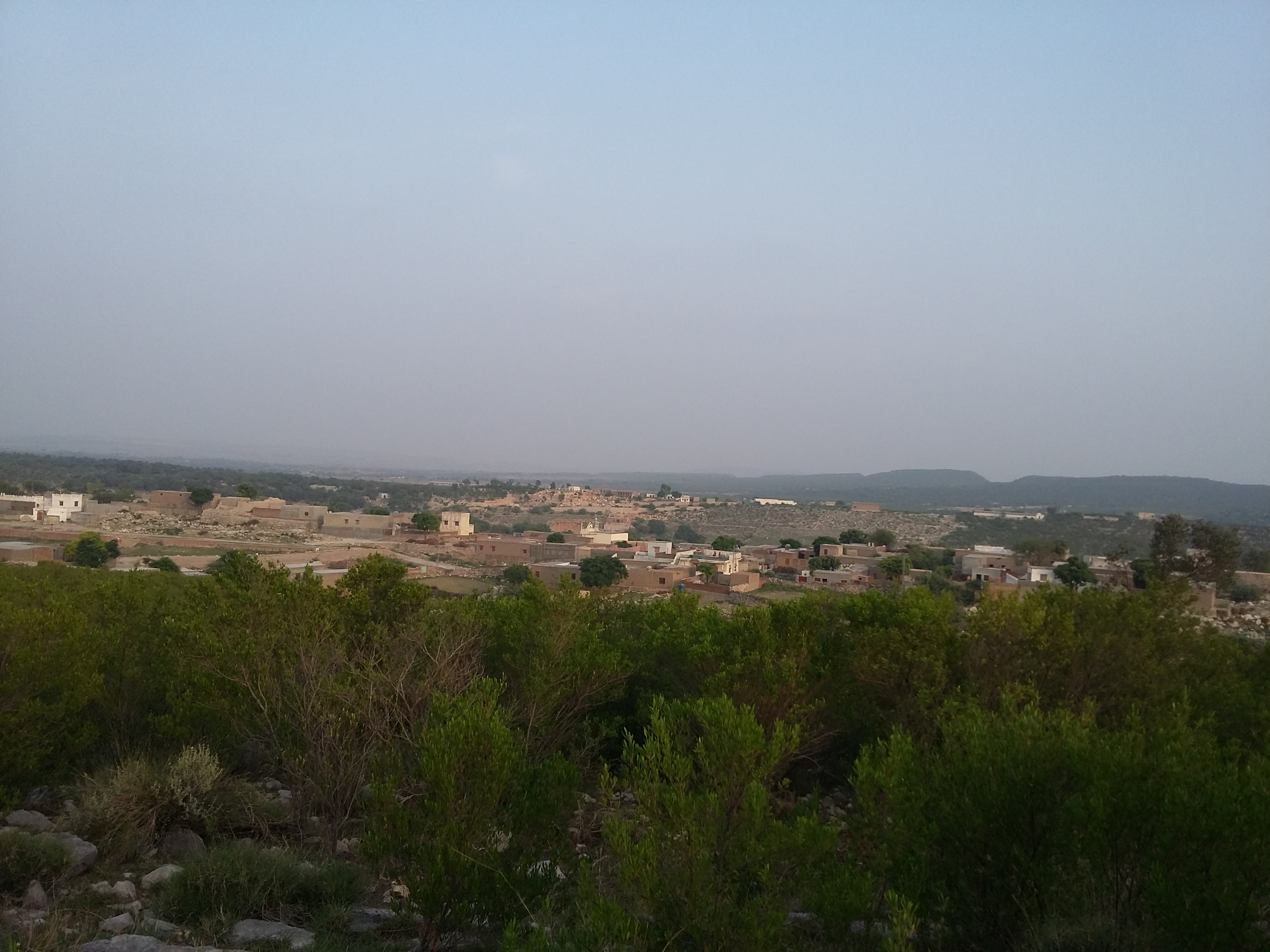 This is a view of Wasnal village from nearby mountaintop.